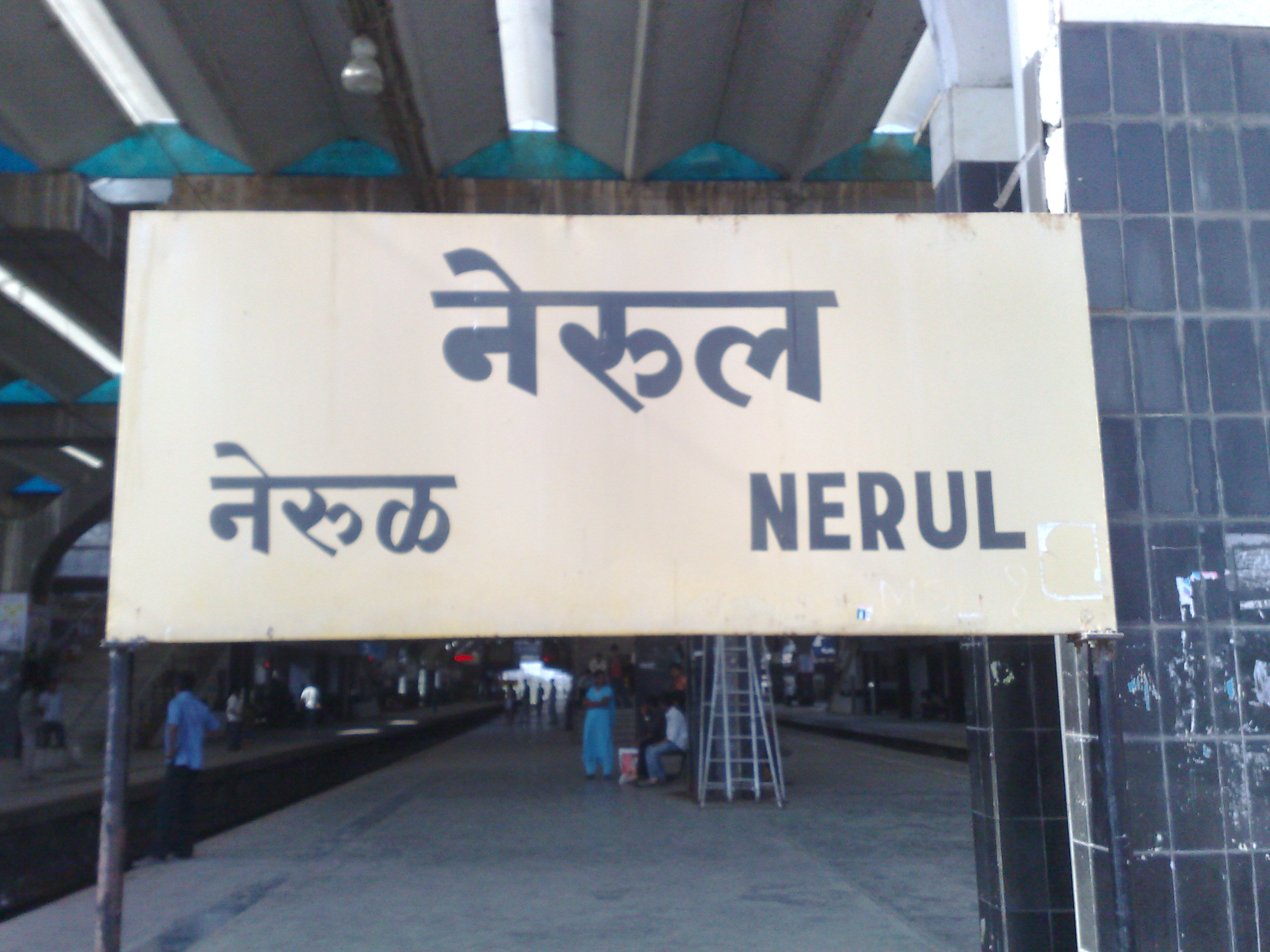 Nerul station board